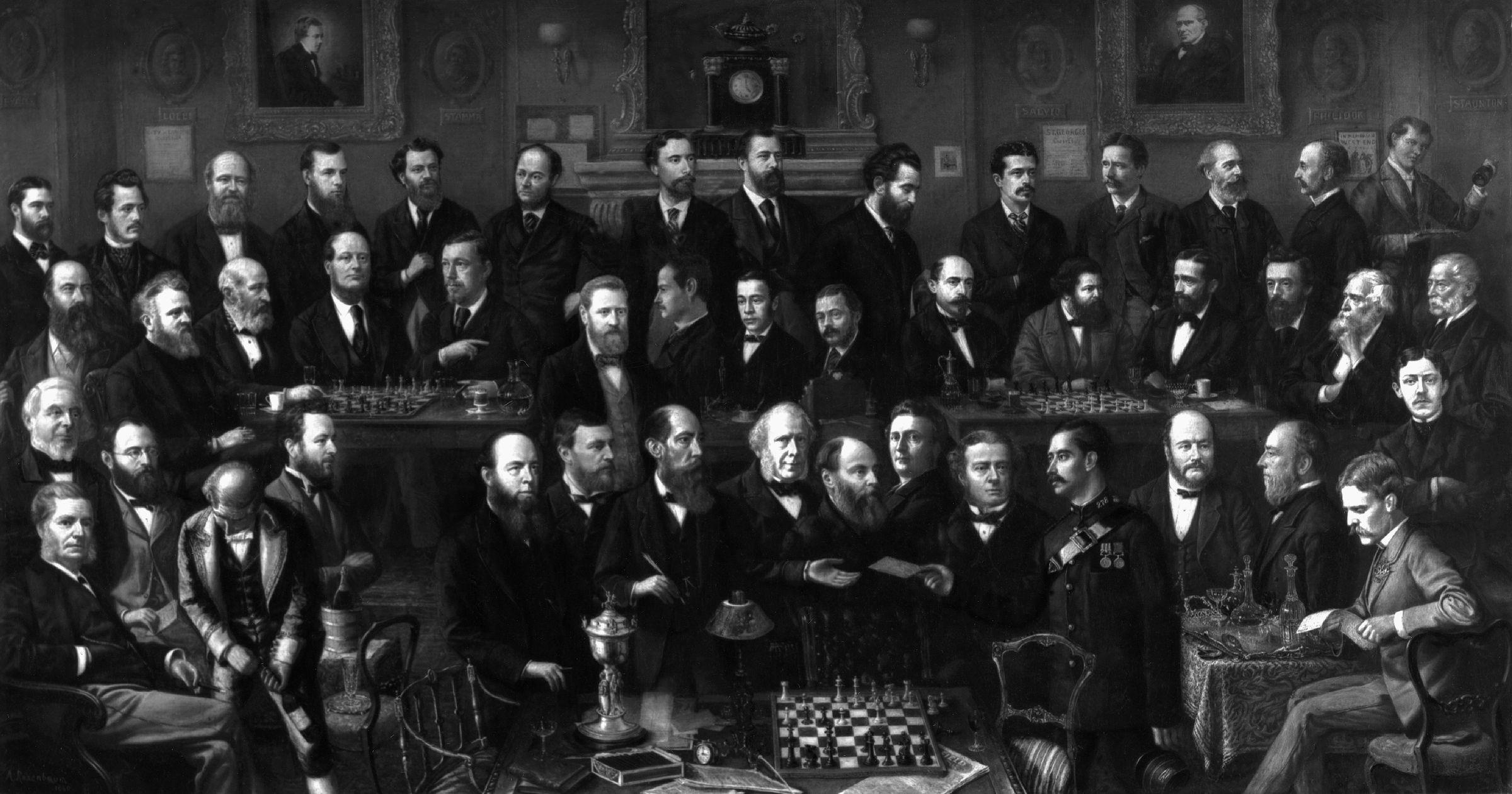 Chess players, by Anthony Rosenbaum (died 1888), given to the National Portrait Gallery, London in 1939. All images in this batch have been confirmed as author died before 1939 according to the official death date listed by the NPG.